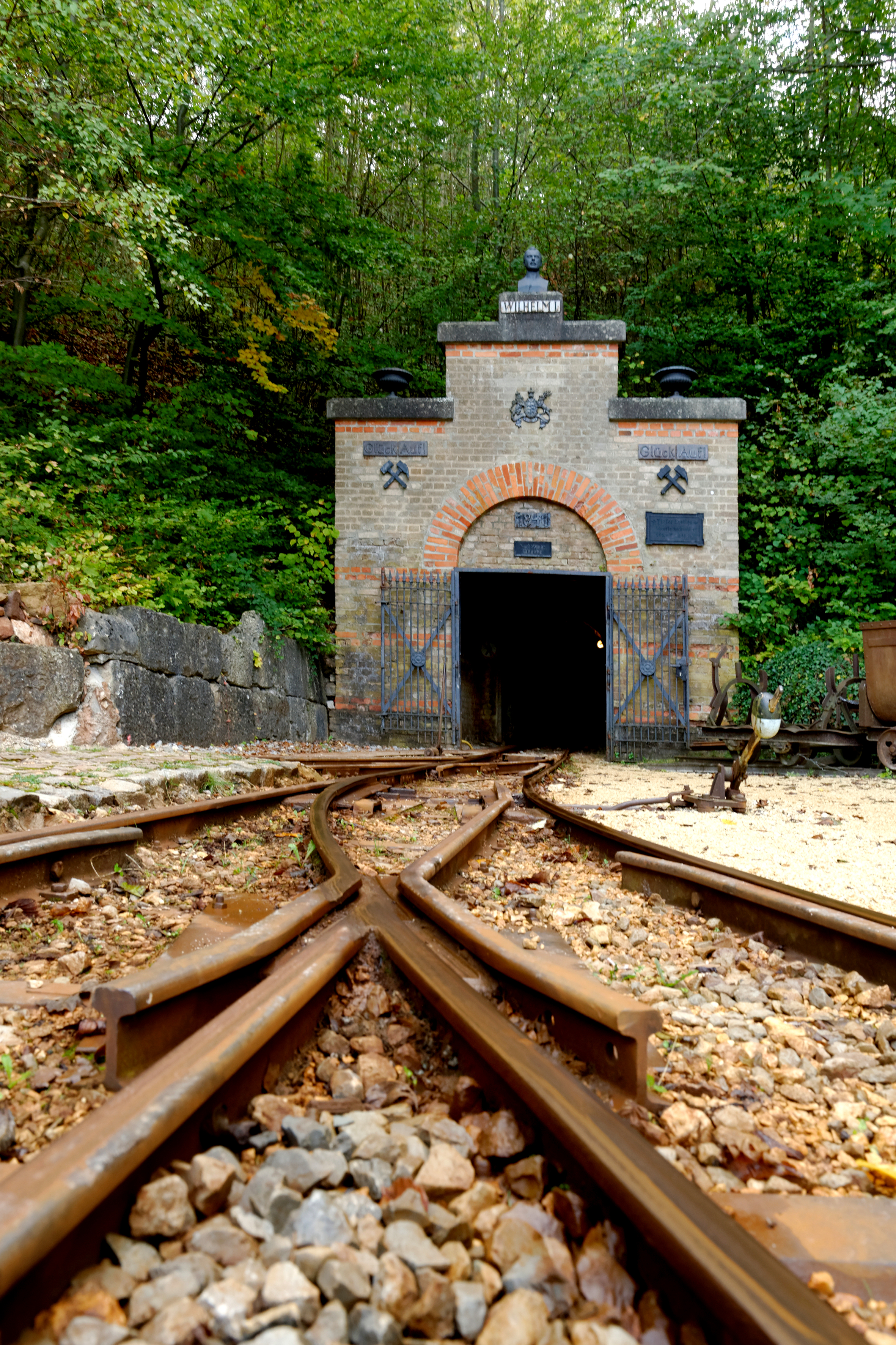 The visitor mine in Aalen-Wasseralfingen.